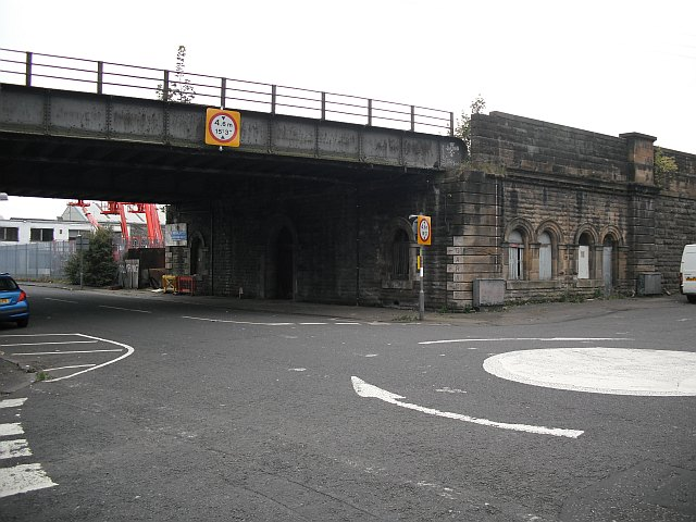 Whiteinch Riverside, site of former Whiteinch Riverside railway station